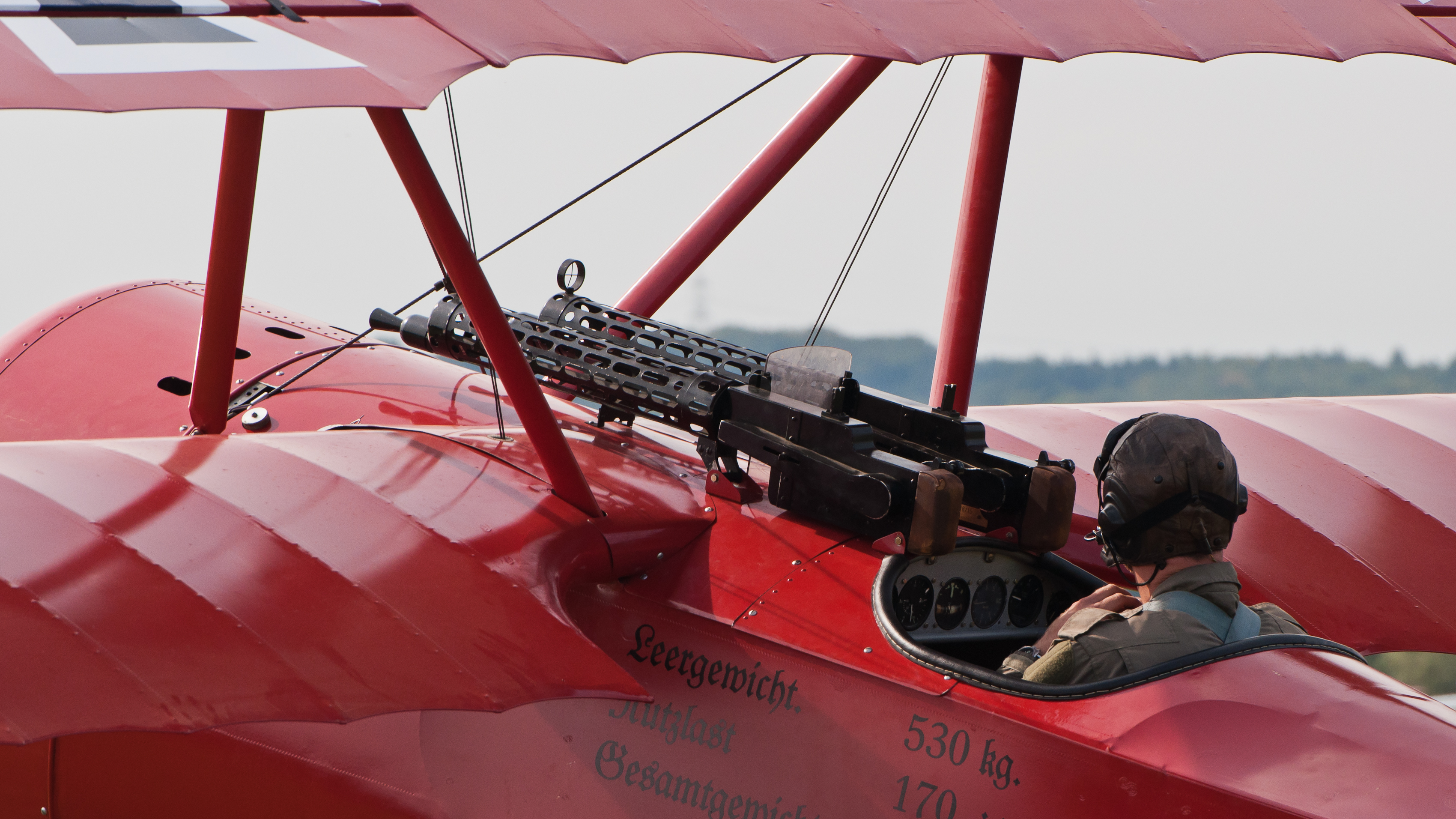 Fokker Dr.I (reg. D-EFTJ, cn 003, built in 1986). Engine: Siemens SH 14.